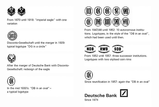 Brand History. The development of the Deutsche Bank Logo